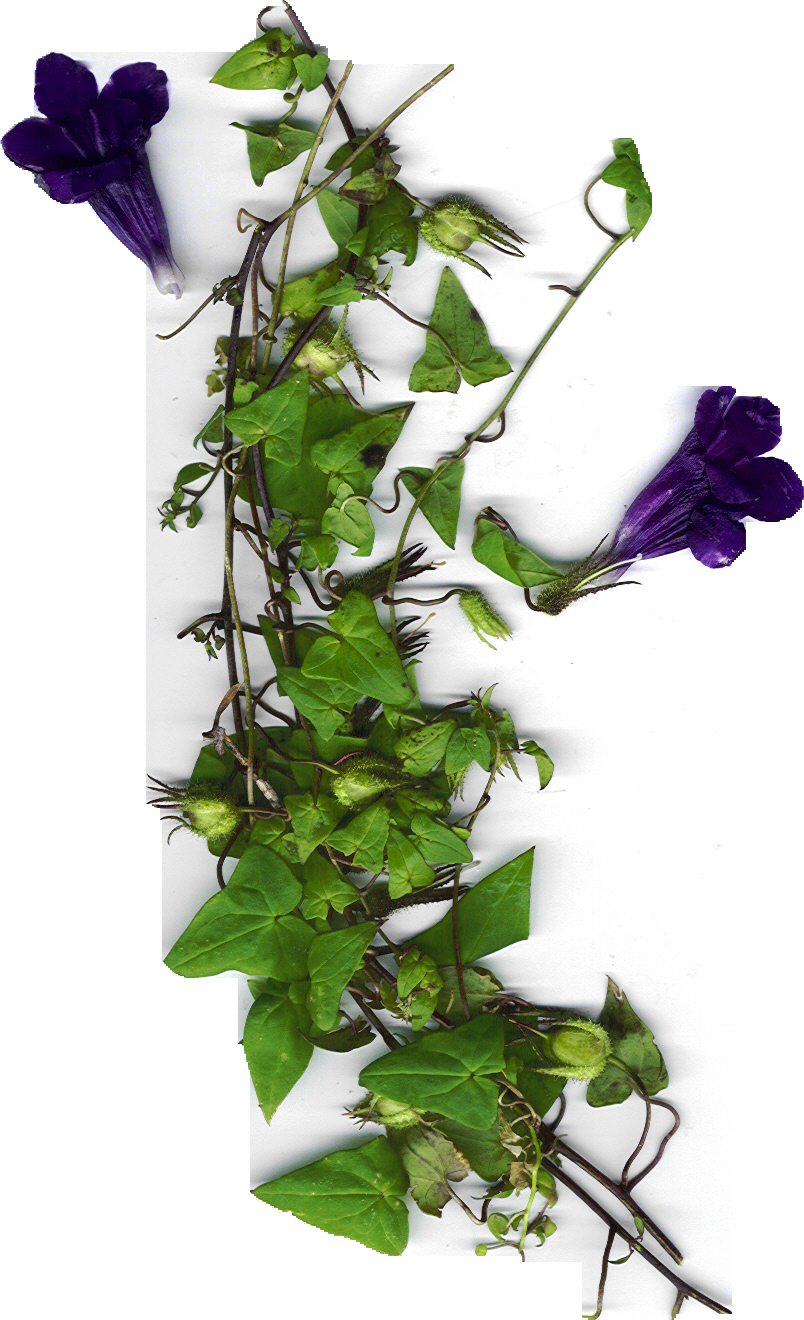 Maurandya barclaiana (branch). Location: Maui, Pukalani